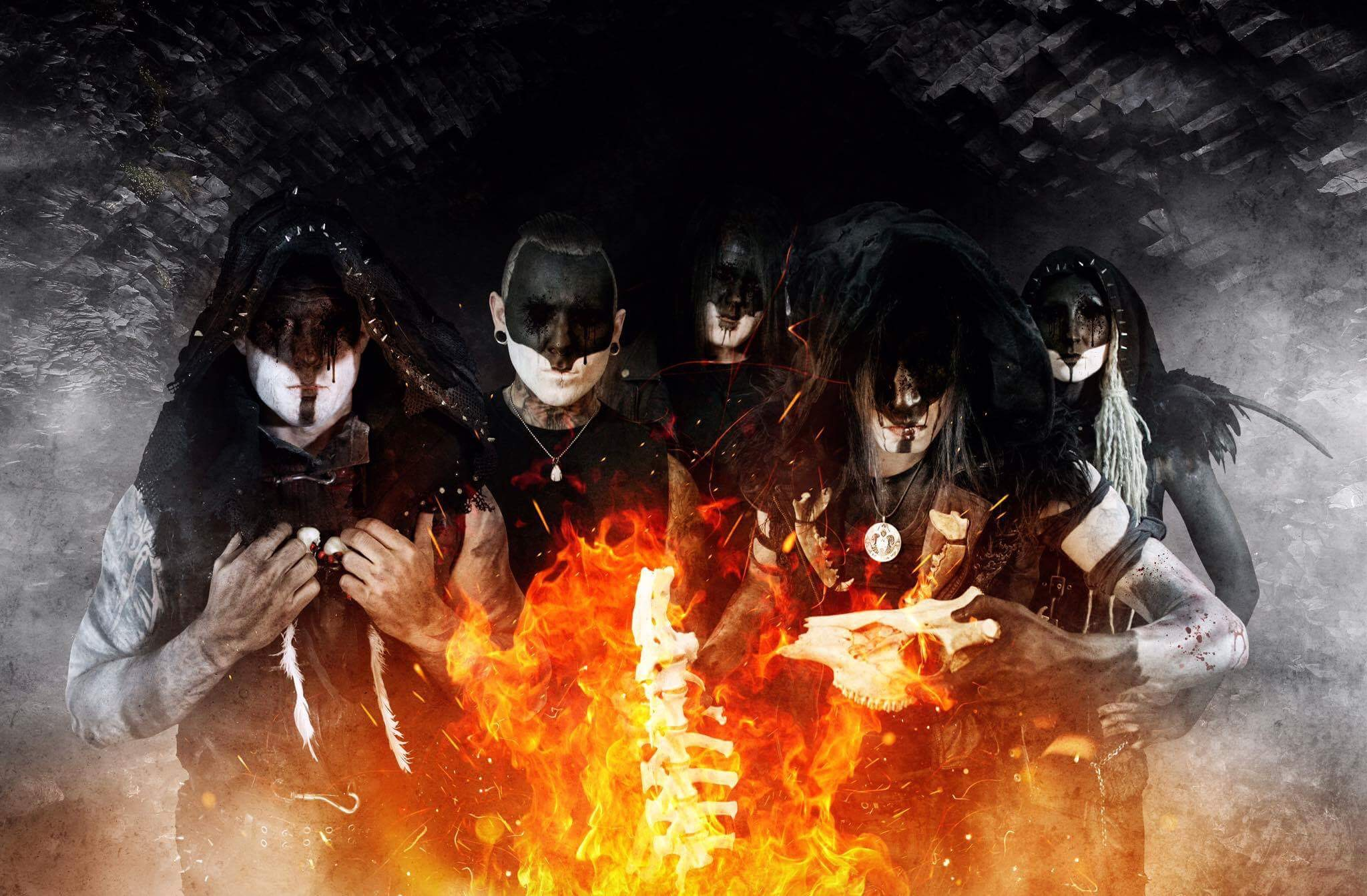 Current lineup, Dawn of Ashes